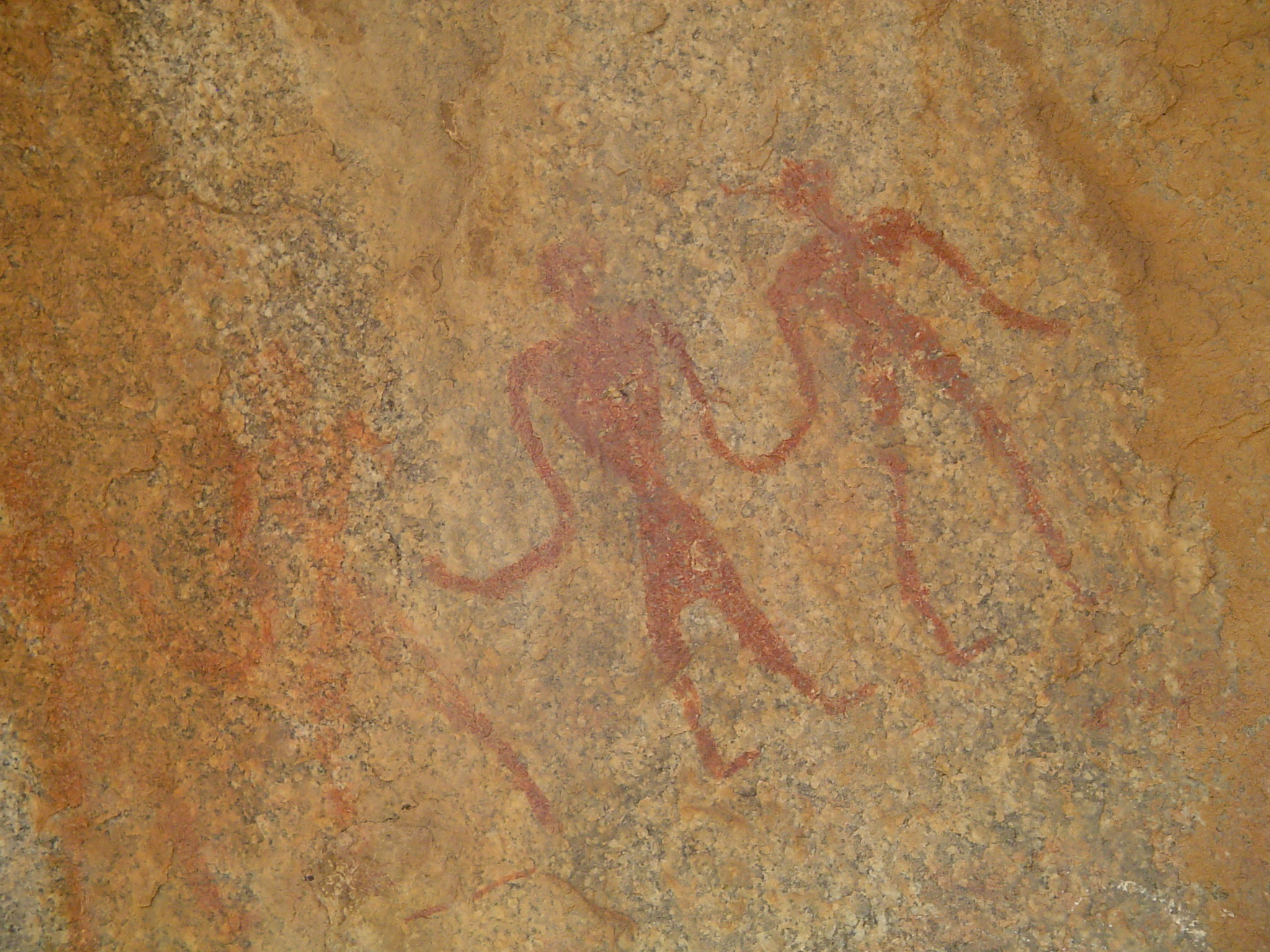 cave painting at Pre-historic site, hire benakal